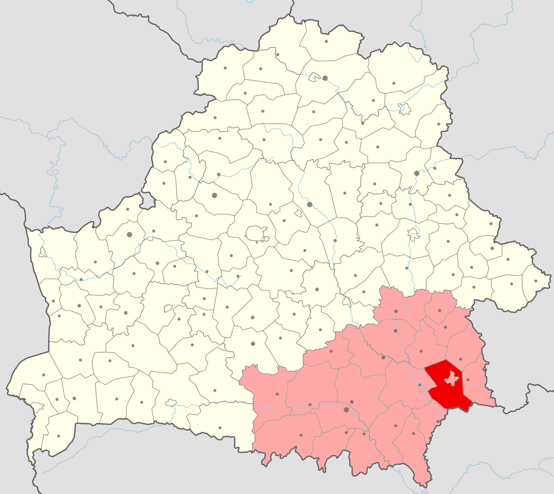 Location of Homieĺski rajon (red) in Homieĺskaja voblasć (light red) in Belarus.